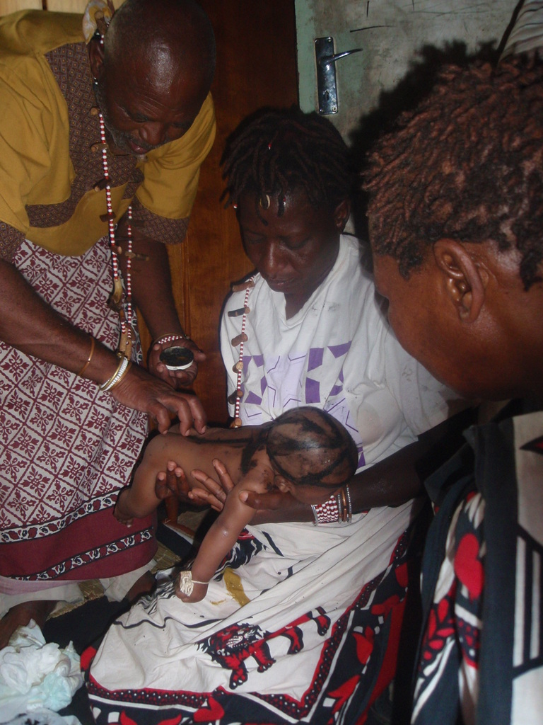 Sangoma/N'anga performing a ritual to protect a new born baby from bad spirits.